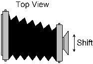 Chris Heald, self created